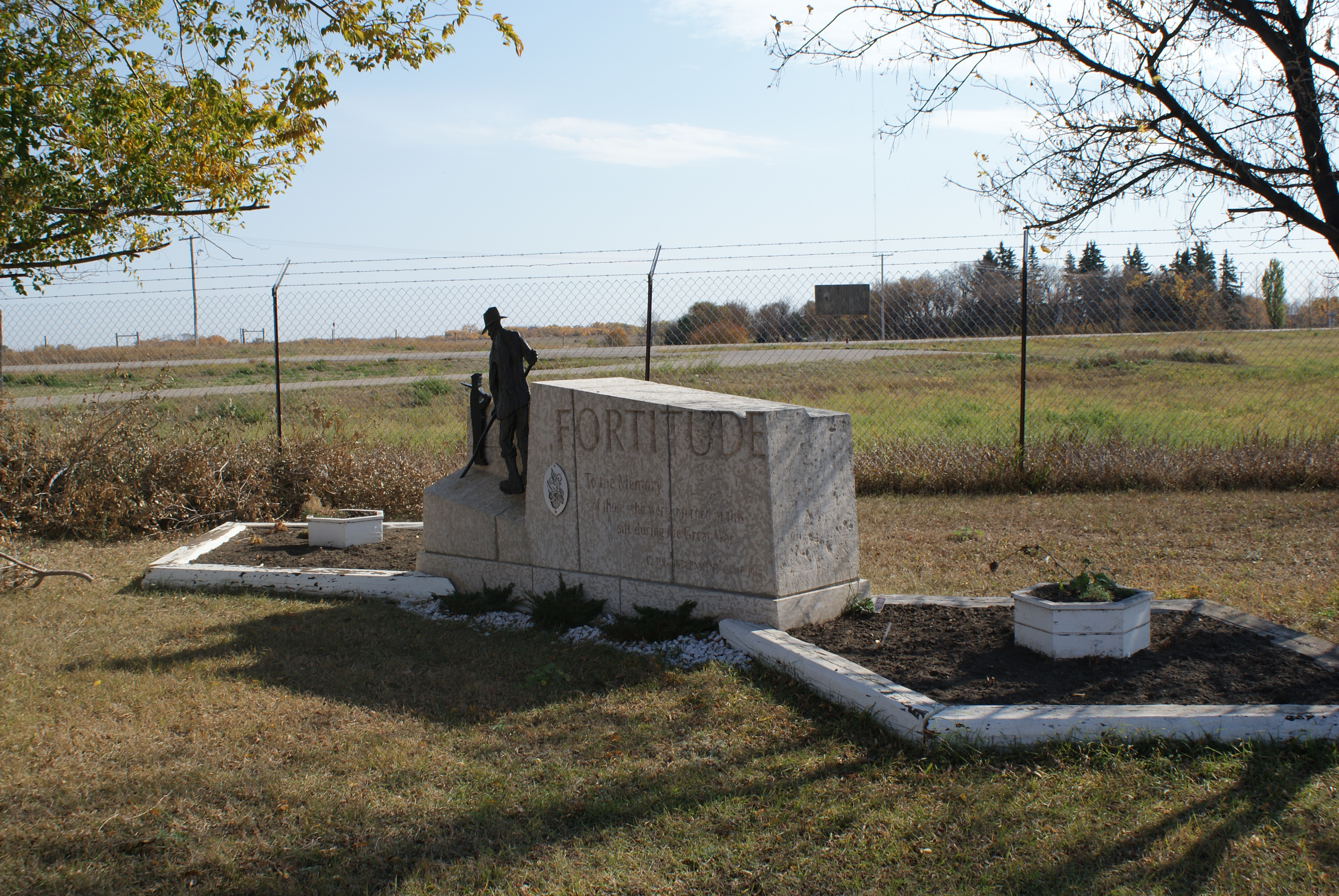 Plaque and Statue commemorating internment camp where many Canadian imigrants, mostly of Ukrainian origin, were detained during World War Plaque and Statue commemorating internment camp where many Canadian imigrants, mostly of Ukrainian origin, were detained during World War I at Eaton, Saskatchewan memorial by Prairie Centre for the Study of Ukrainian Heritage (PCUH) at the Saskatchewan Railway Museum Fortitude. To the memory of those who were interned at this site during the Great War. EATON INTERNMENT CAMP 1919. Hawker siding first name was Eaton siding. 8,579 alien civilians were interred here. 1 of 26 camps across Canada. Fortitude. To the memory of those who were interned at this site during the Great War. EATON INTERNMENT CAMP 1919.